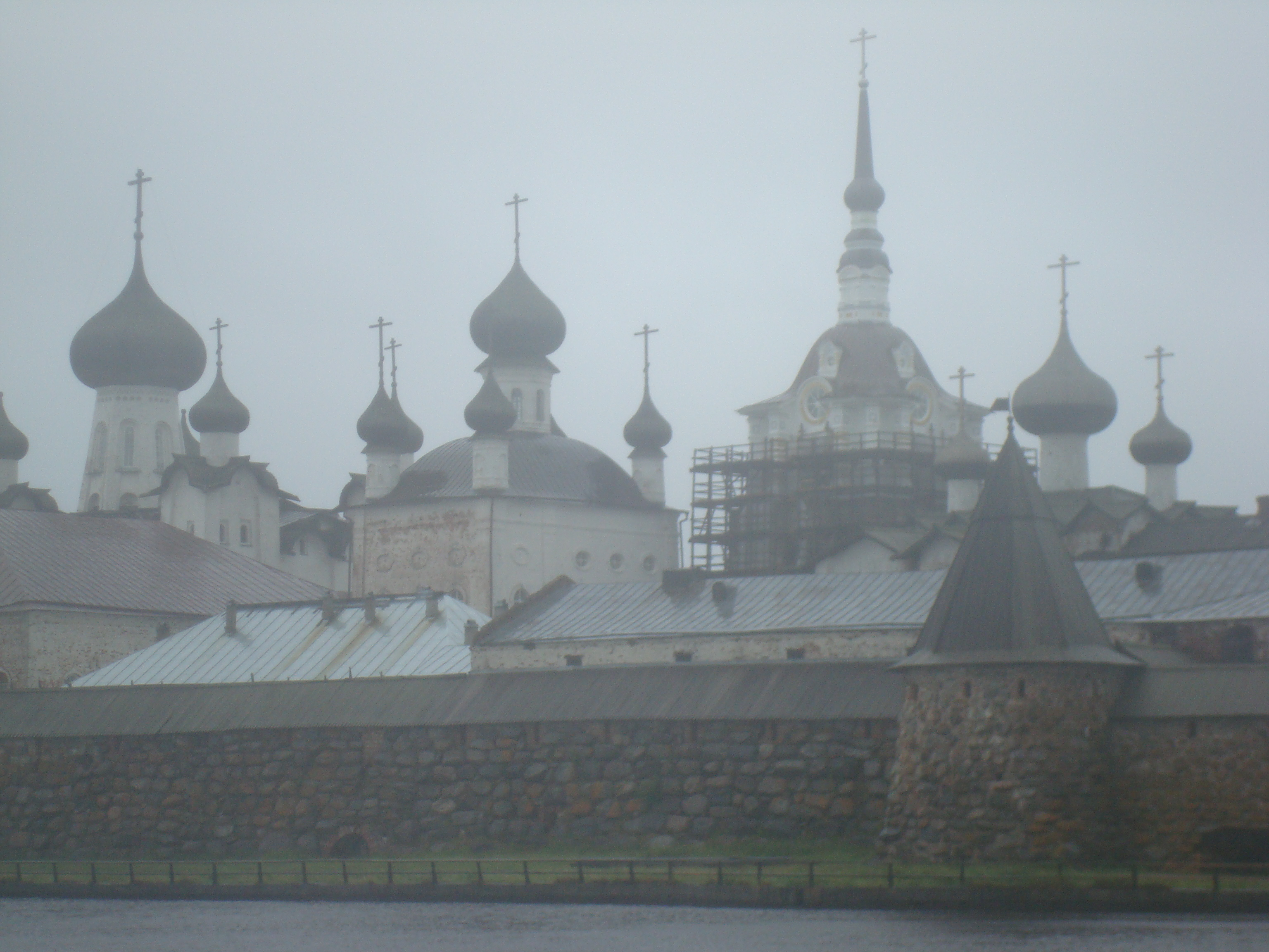 The onion domes of Solovetsky Monastery churches, Russia. Seen from the lake, in the mist.